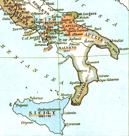 Part of the file: Italy 1050.jpg, showing Southern Italy with Sicily